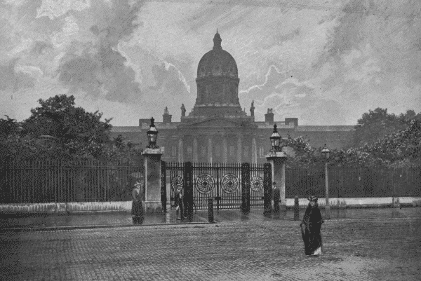 A view of Bethlehem Royal Hospital, London, from Lambeth Road, published before 1896.